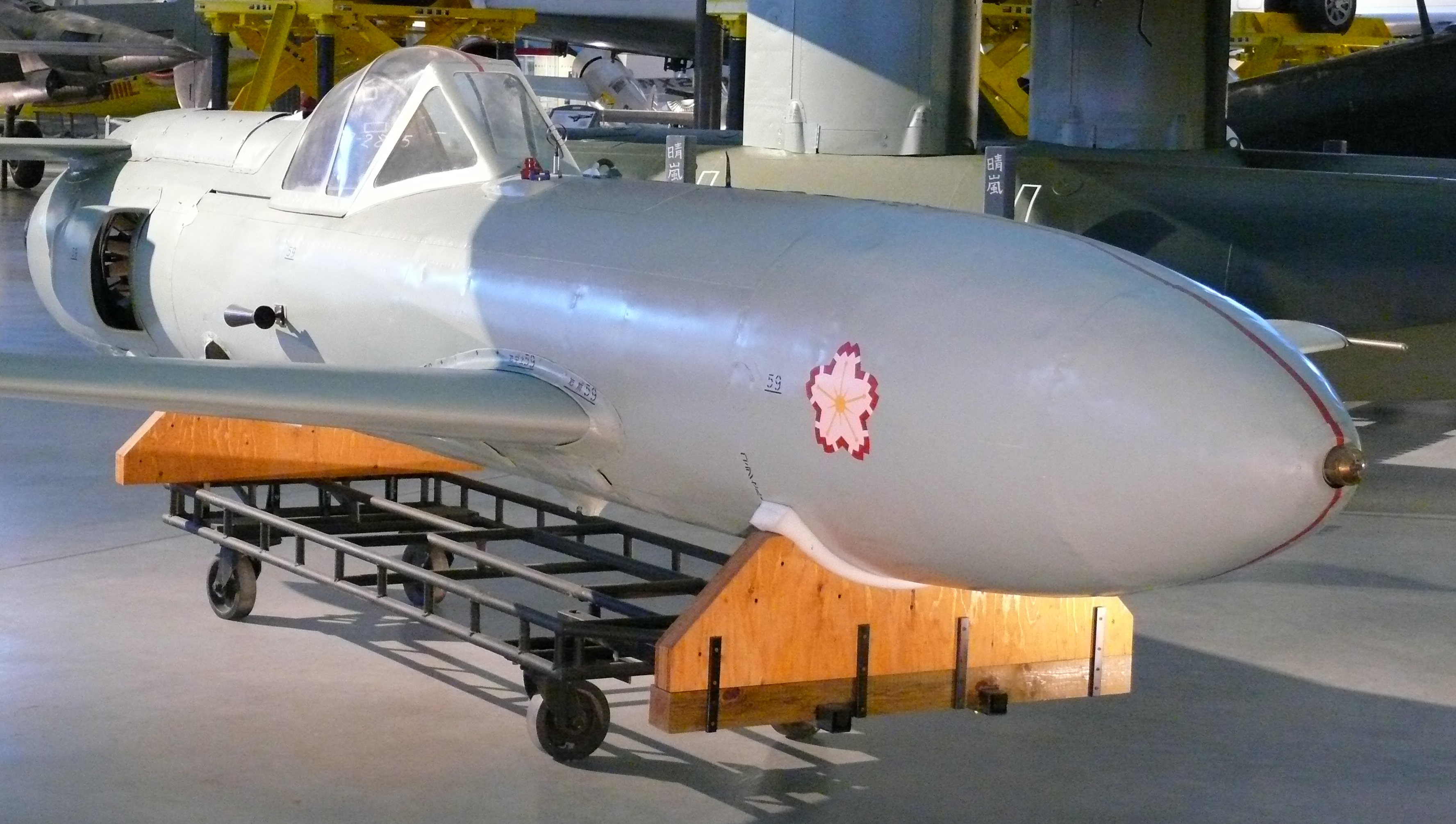 Kugisho MXY7 Ohka (Cherry Blossom) 22 in the Steven F. Udvar-Hazy Center, Chantilly, VA near Washington DC. The Ohka was designed to allow a pilot to fly his aircraft with its warhead at high speed into an Allied warship. This Ohka 22 is the only surviving Tsu-11 jet-powered version of the aircraft.